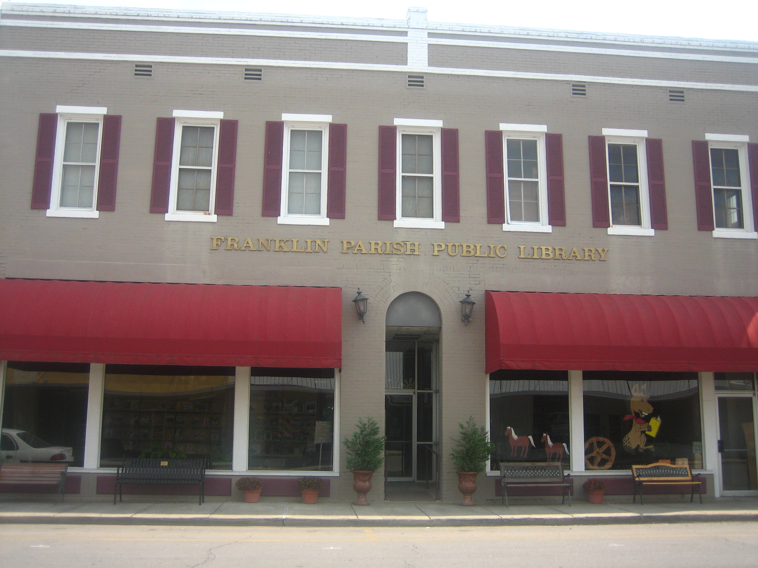 I took photo on Aug. 2, 2008.Billy Hathorn (talk) 03:46, 17 August 2008 (UTC)